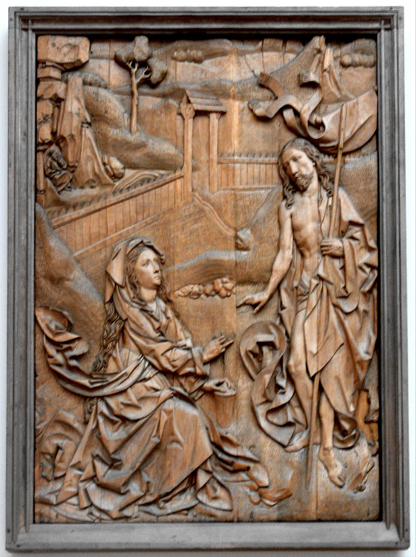 Tilman Riemenschneider: The Risen Christ appears to Mary Magdalen, 1490–1492, limewood, from the left wing of the high altar altarpiece of St. Magdalen Church, Münnerstadt. Skulpturensammlung (inv. no. 2628, acquired i 1901). Bode-Museum Berlin.